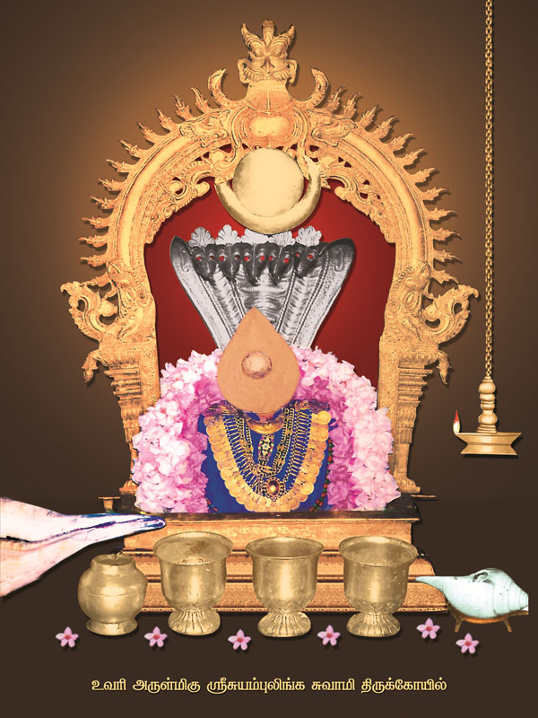 Uvari Sri Suyambulingaswami, is the image of God Siva residing in the village called Nadar Uvari in Tirunelveli district, Tamilnadu, India.